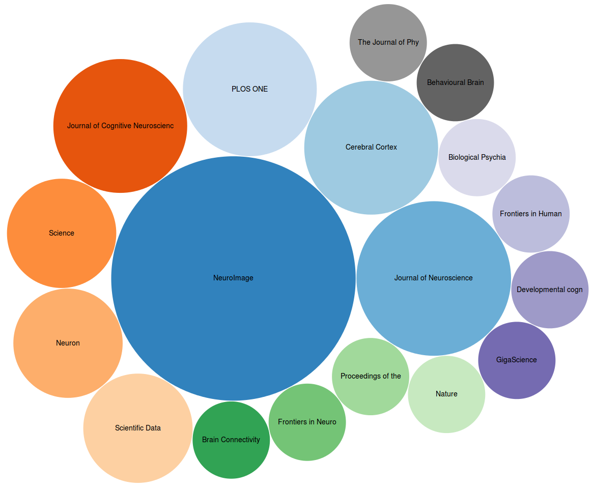 Statistics of journals.